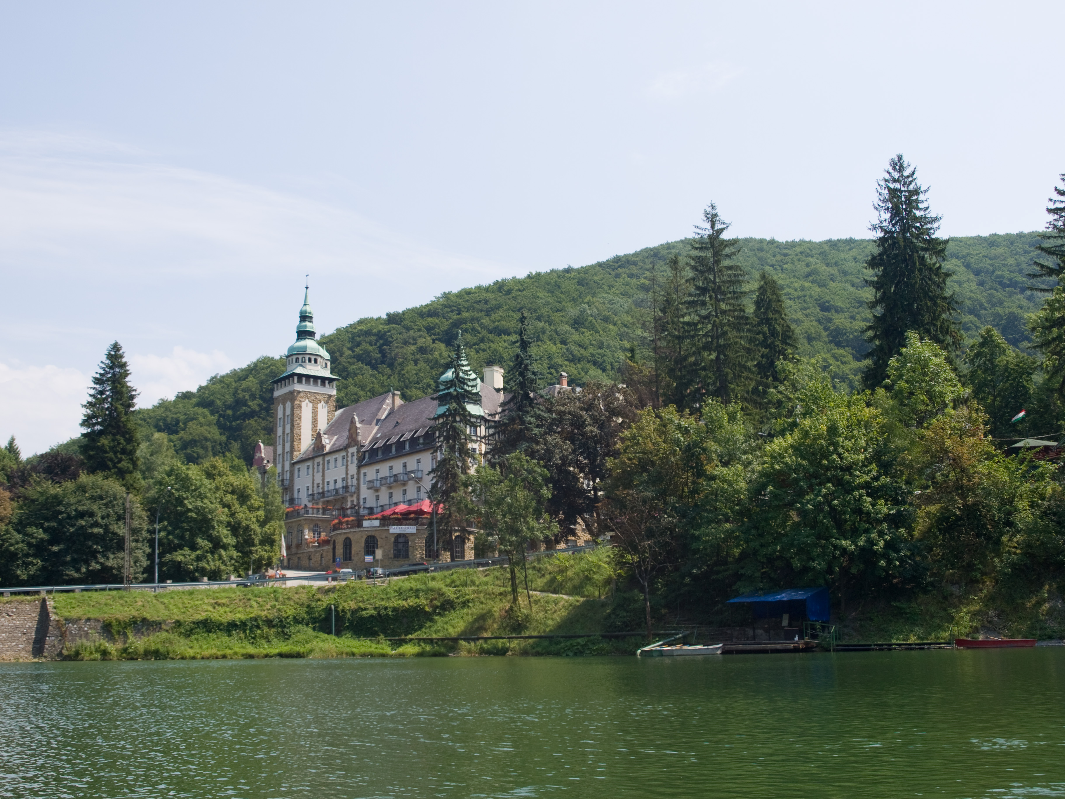 Lillafüred, Miskolc